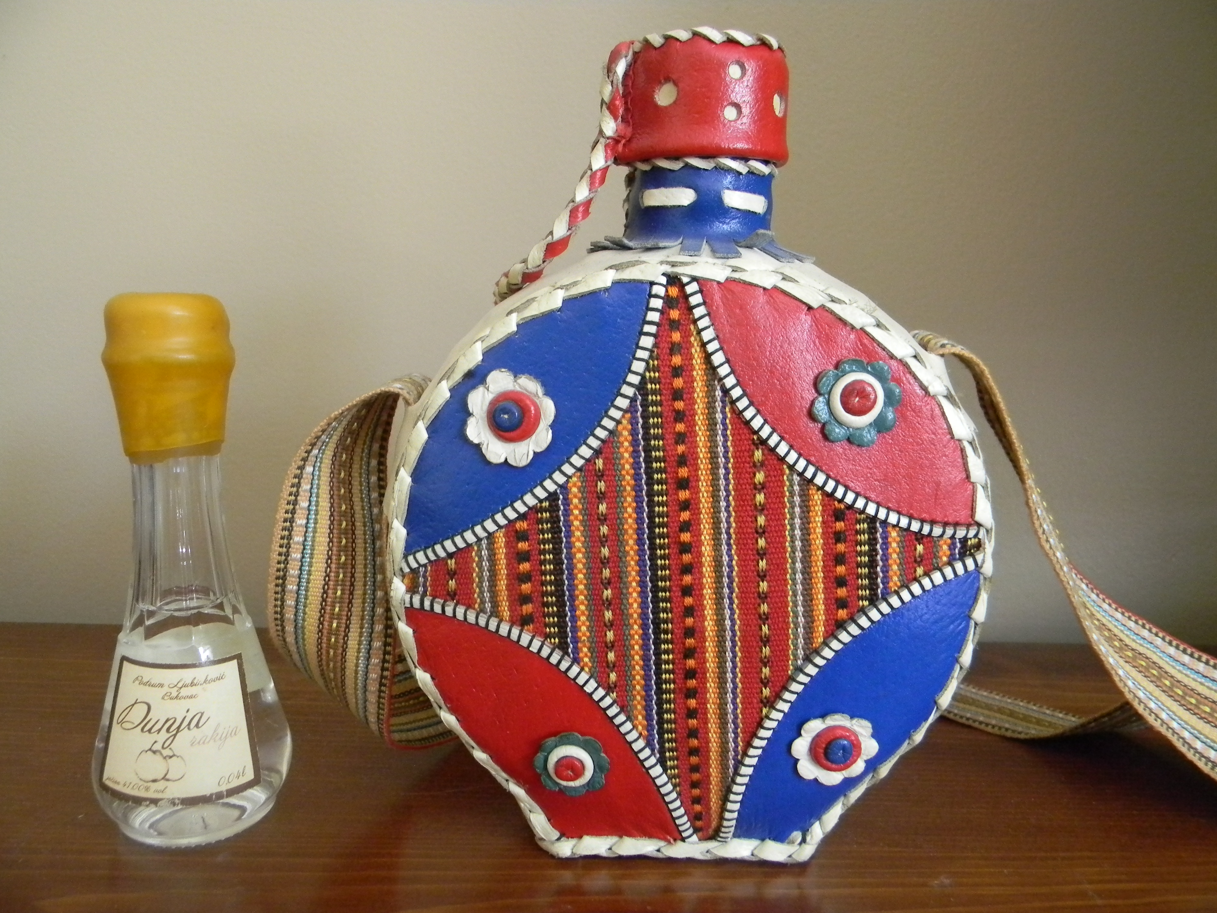 Quince rakija from Serbia in traditional Flasks